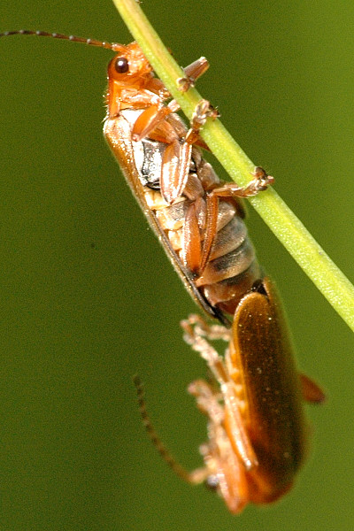 Picture taken in Commanster, Belgian High Ardennes . Species: Cantharis cryptica/pallida couple